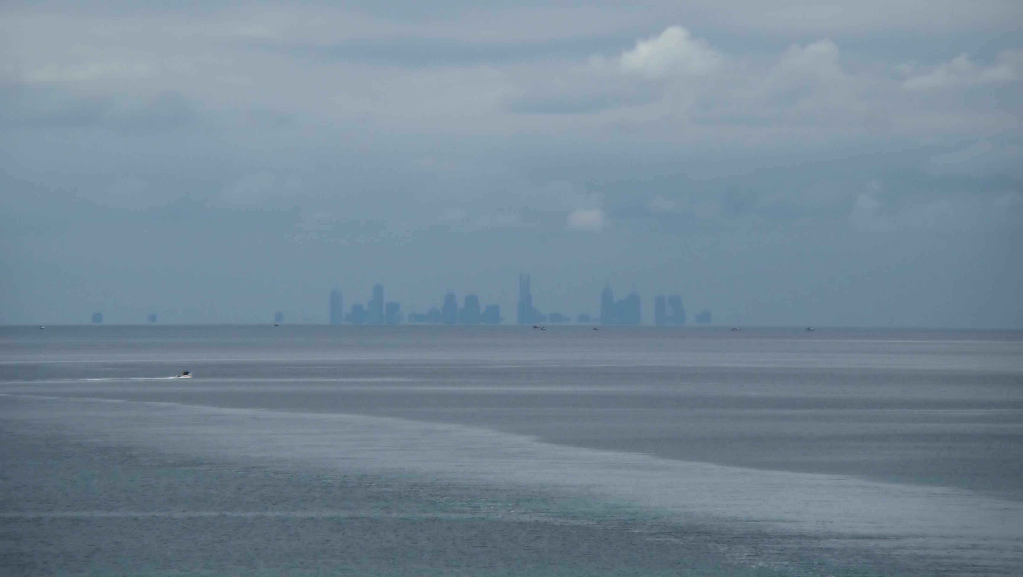 Melbourne as seen across Port Phillip, the bay south of the city, approximately from Swan Bay, from the top deck of the ferry "The Spirit of Tasmania".